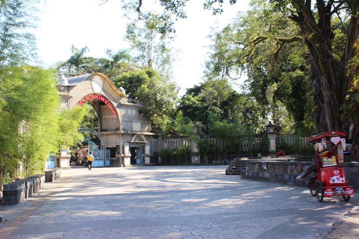 Entrance to Sriwedari Park